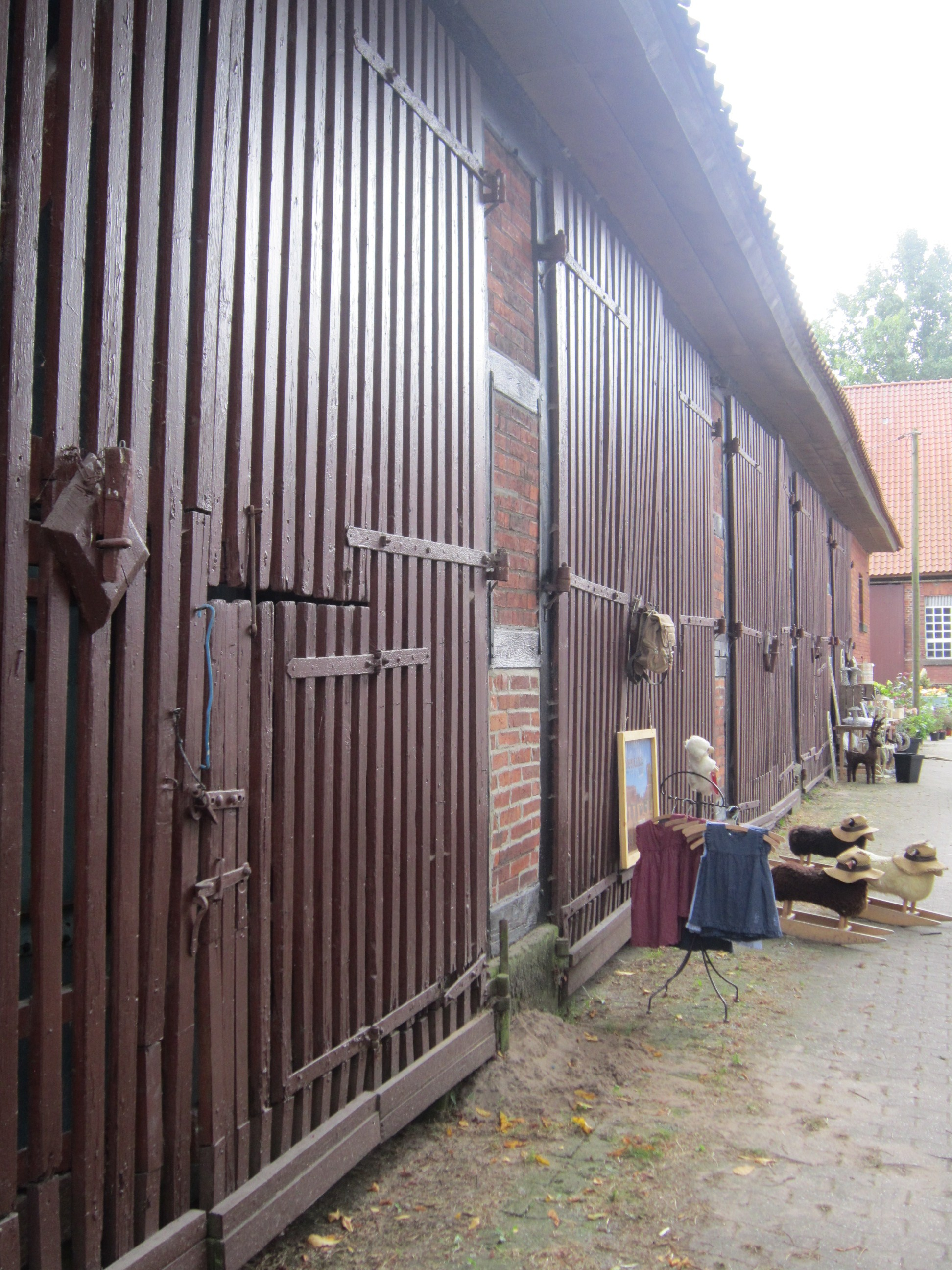 Stable of Domaine "Schäferhof" near Nienburg/Weser during the garden festival "Landpartie"